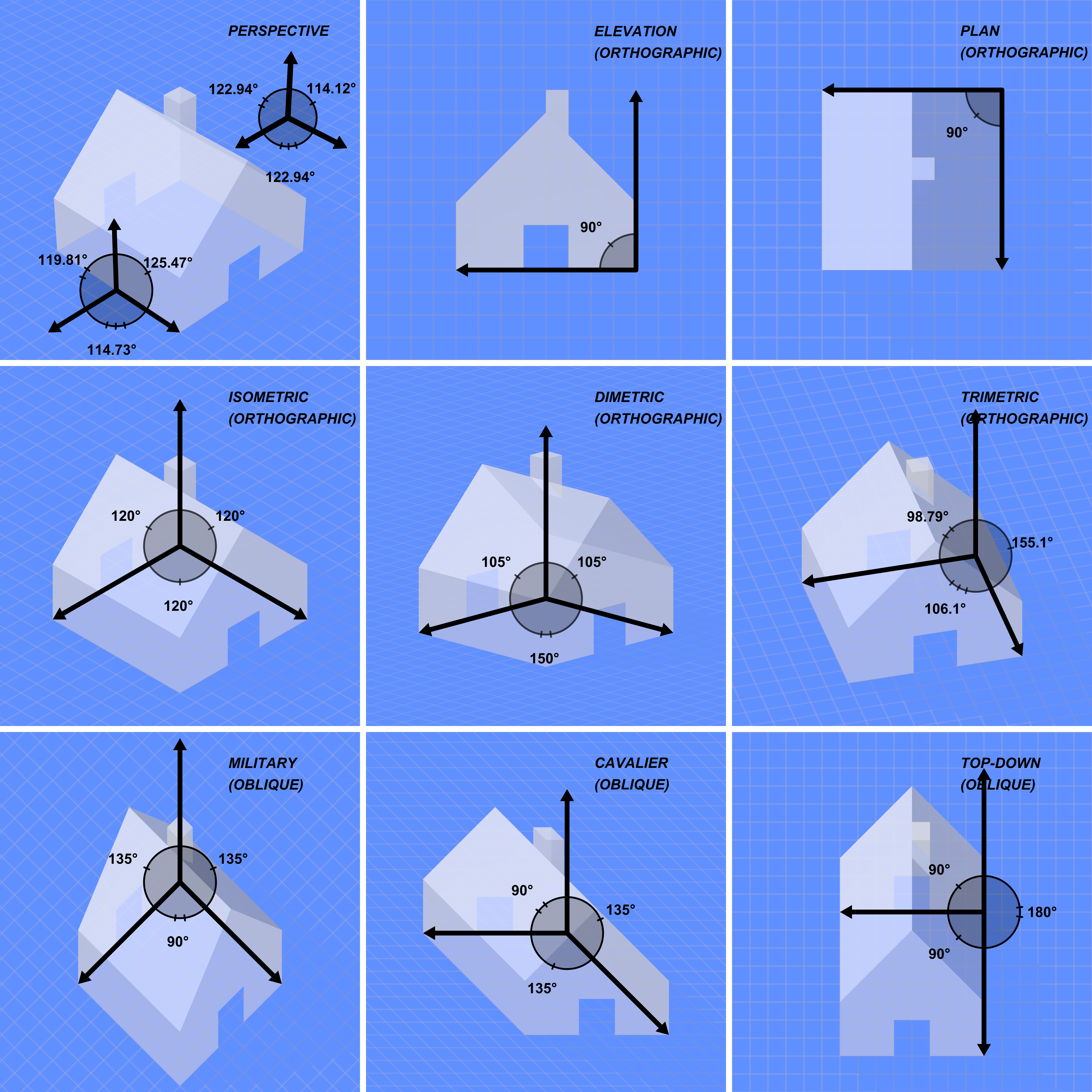 Side-by-side comparison of types of graphical projection. Created in POV-Ray and GeoGebra.